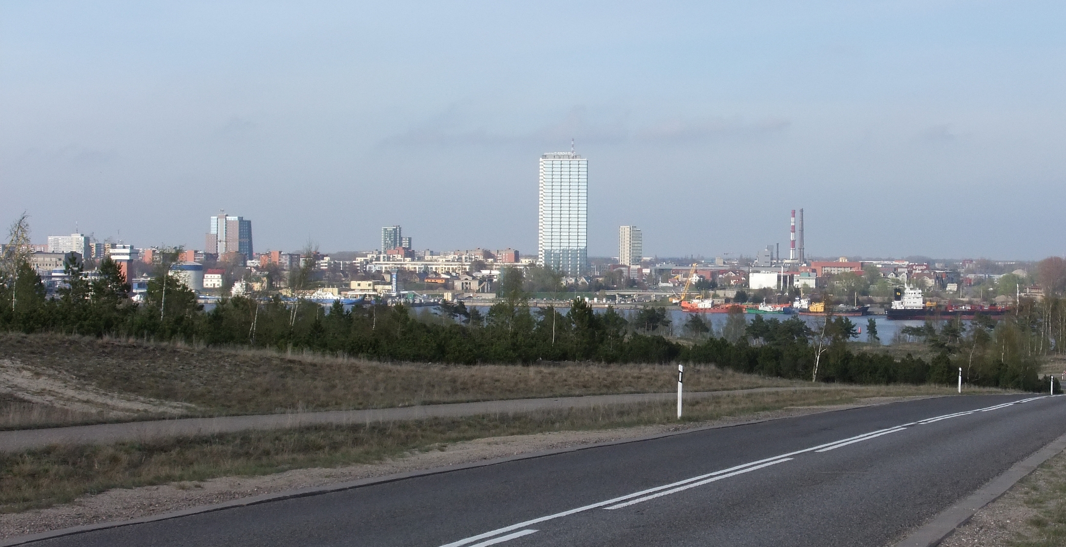 Klaipėda, Lithuania.